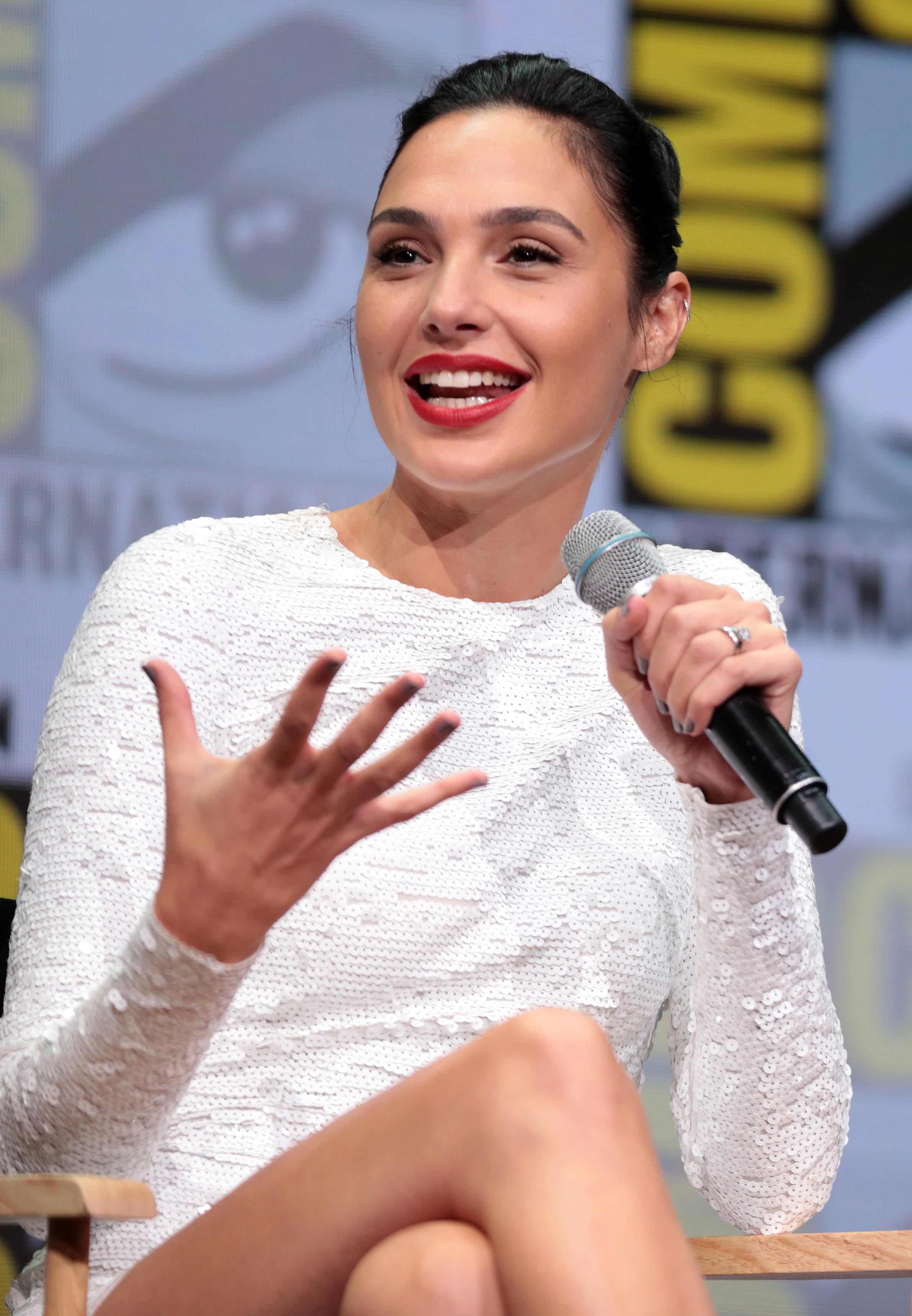 Gal Gadot speaking at the 2017 San Diego Comic-Con International in San Diego, California.